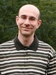 Iosif Polterovich, Oberwolfach 2012